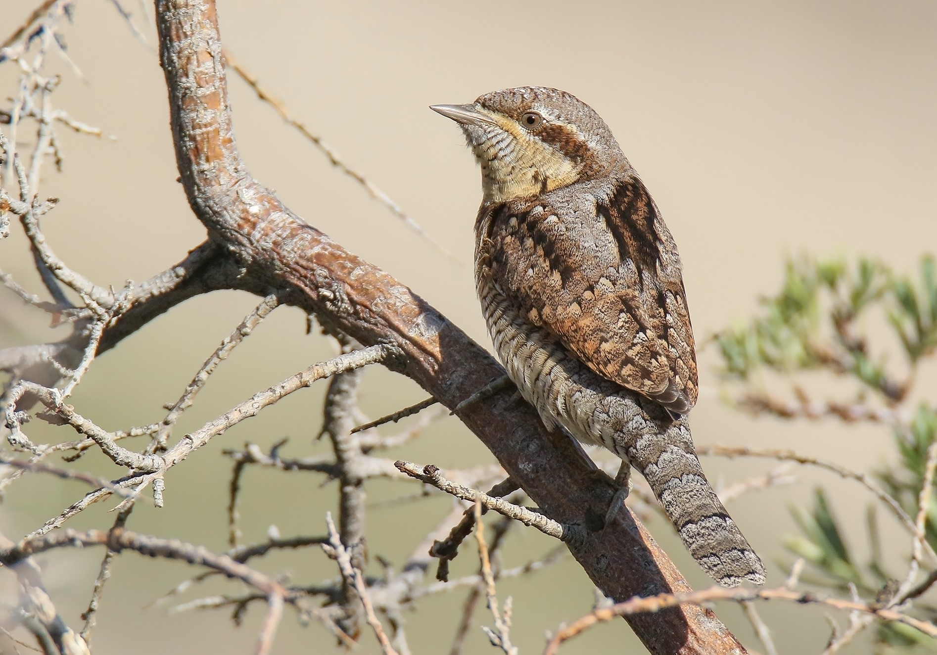 Eurasian Wryneck (Jynx torquilla) captured at Borit, Gojal, Gilgit-Baltistan, Pakistan with Canon EOS 7D Mark II